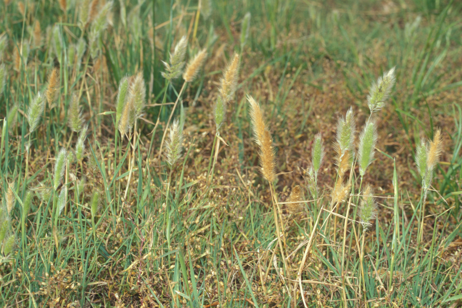 Polypogon interruptus (Habit). Location: Midway Atoll, Sand Island